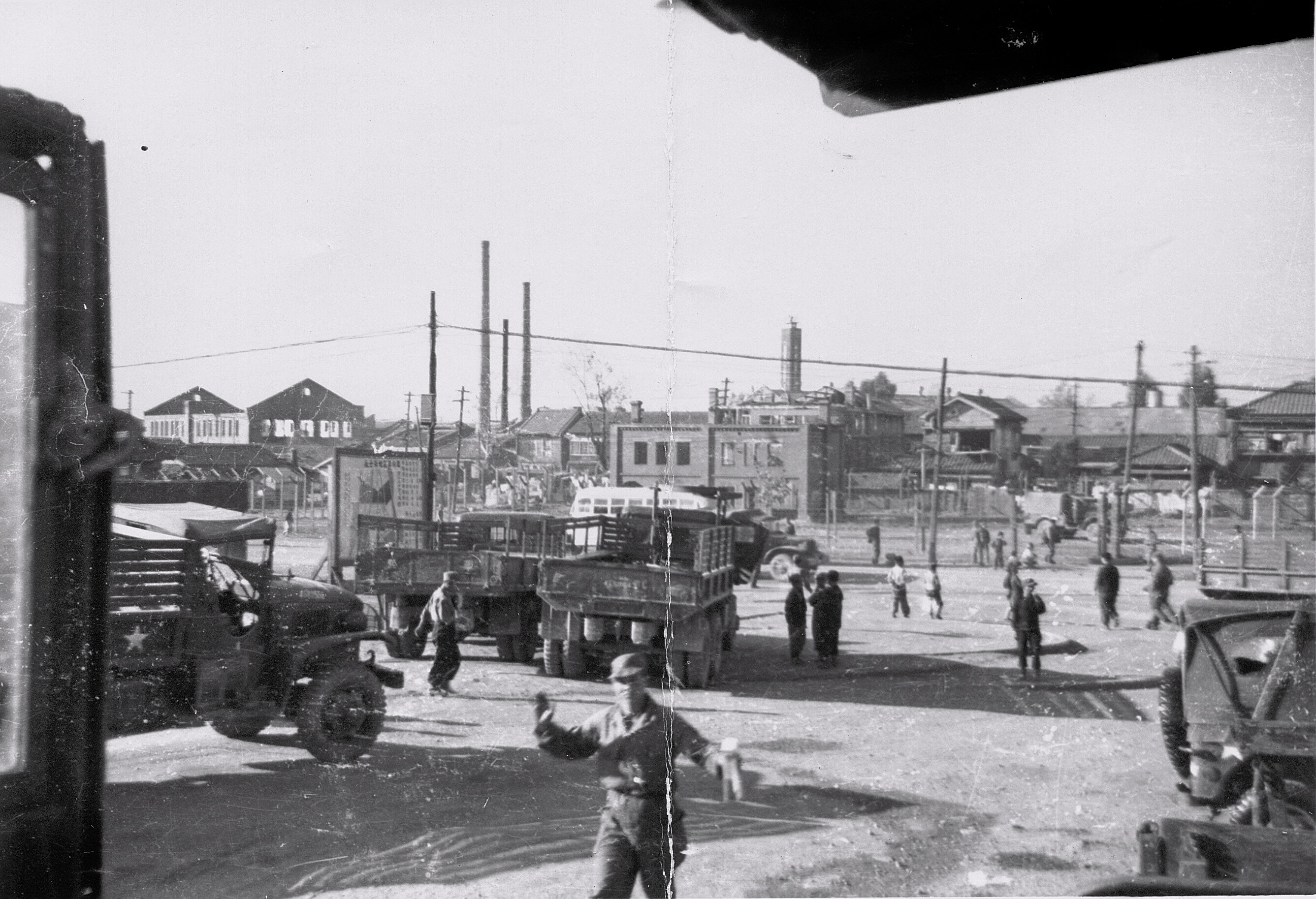 Anyang, South Korea United States Forces Korea